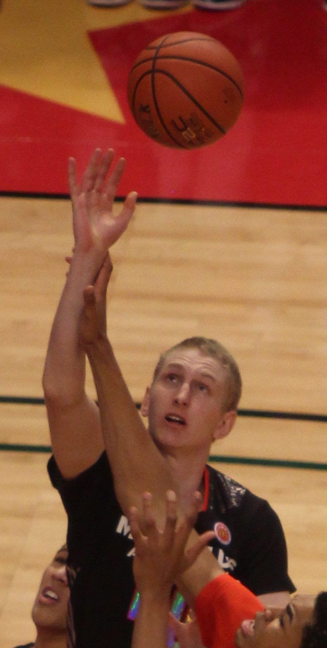 Thomas Welsh in the w:2014 McDonald's All-American Boys Game